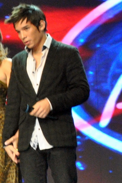 The first winner of Idol Puerto Rico Christian Pagan singing at the final gala of Idol PR. Picture taken at Centro de Bellas Artes de Caguas.